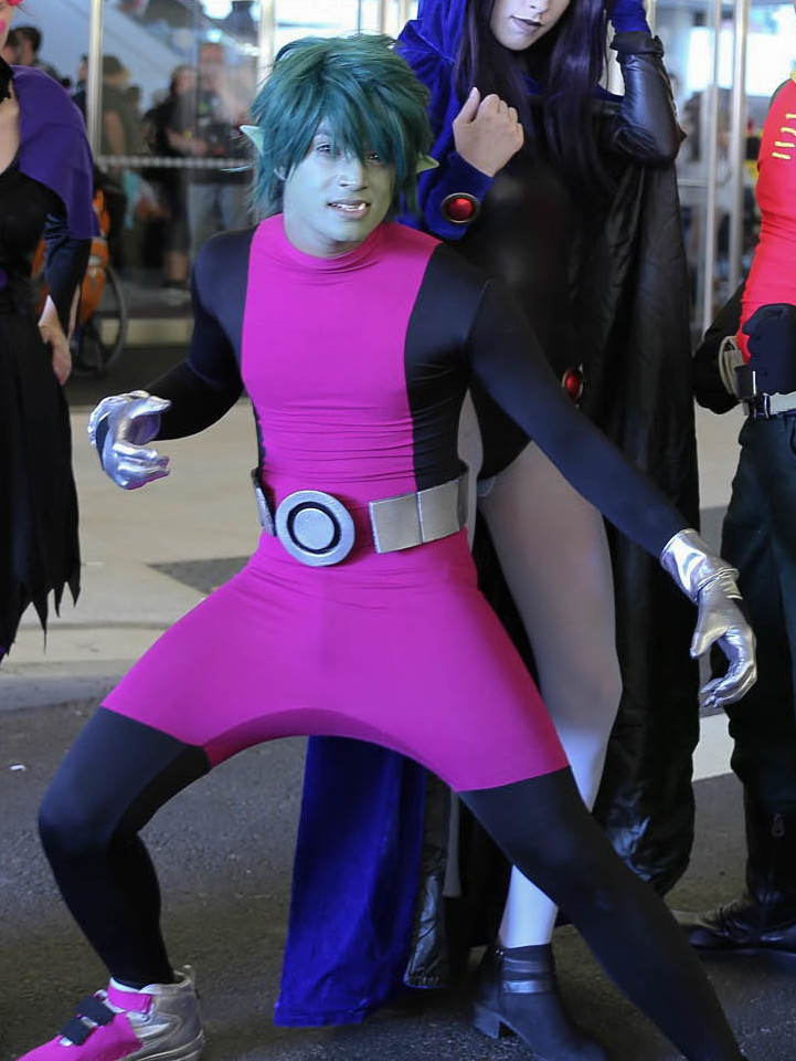 Cosplay at the 2016 New York Comic Con.